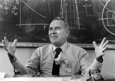 Public domain photo